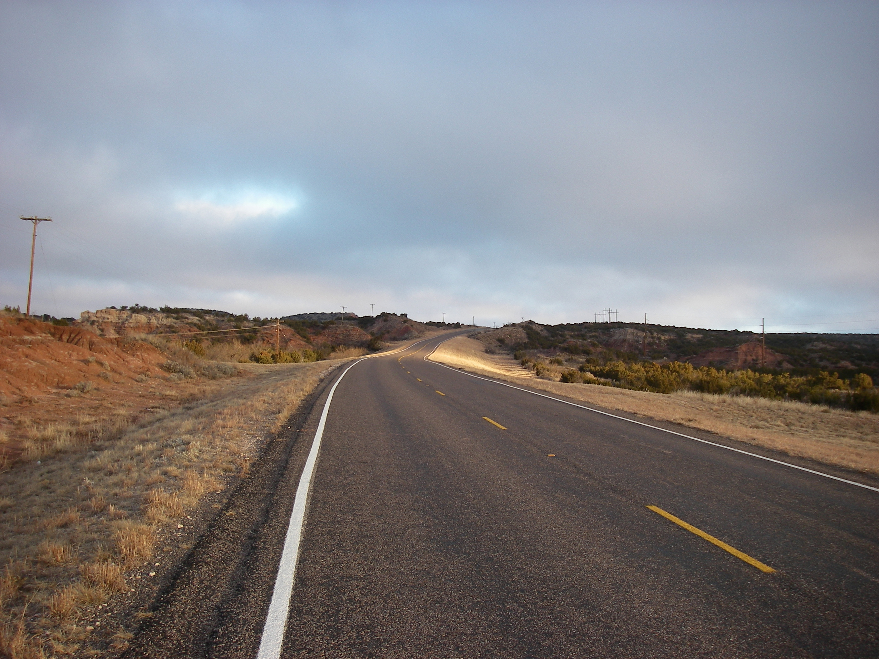 Farm to Market Road 669 climbing the Caprock Escarpment to the Llano Estacado, in Garza County, West Texas.